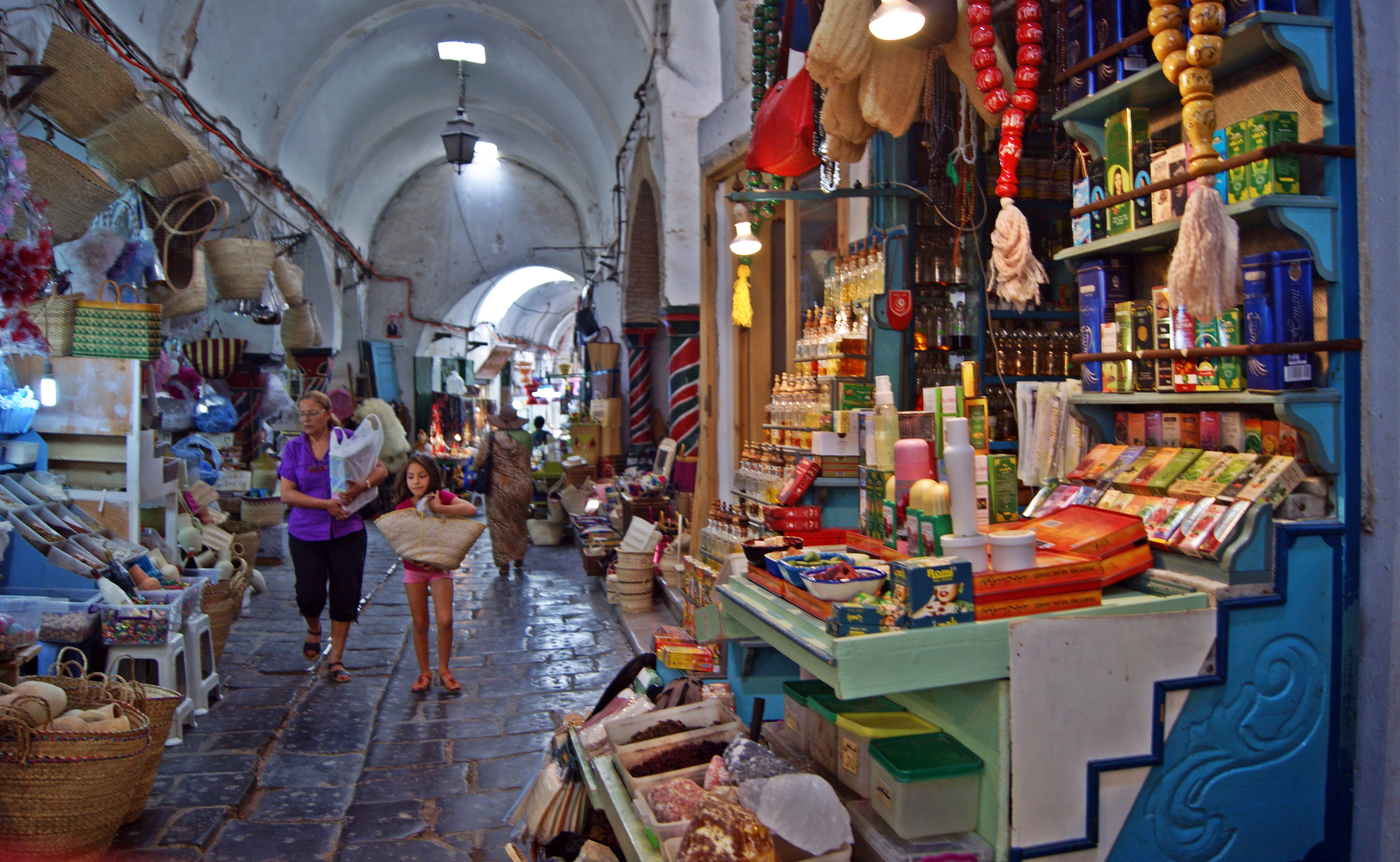 Souqs in Tunis